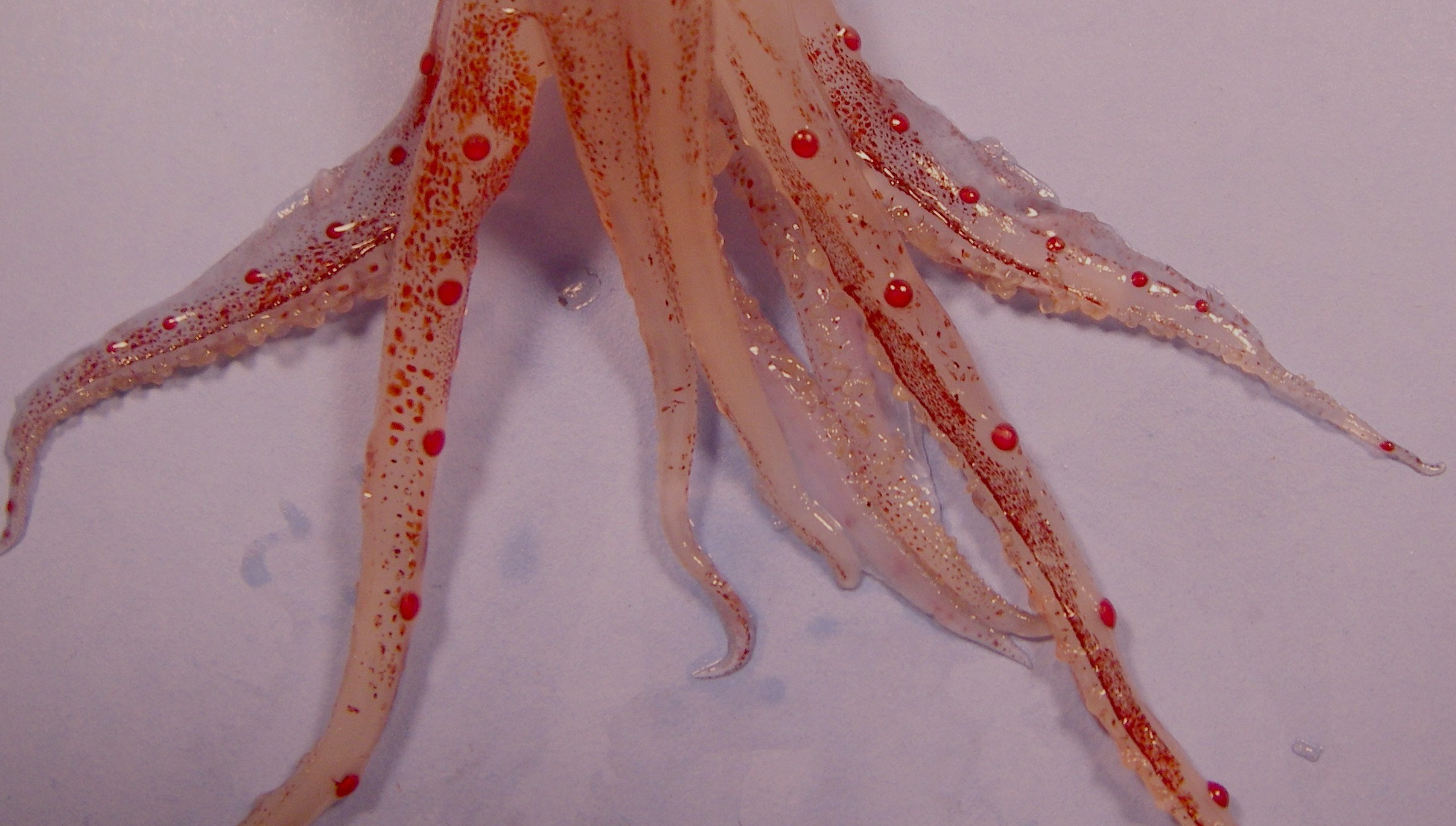 Tentacles of Abralia veranyi from the Gulf of Mexico